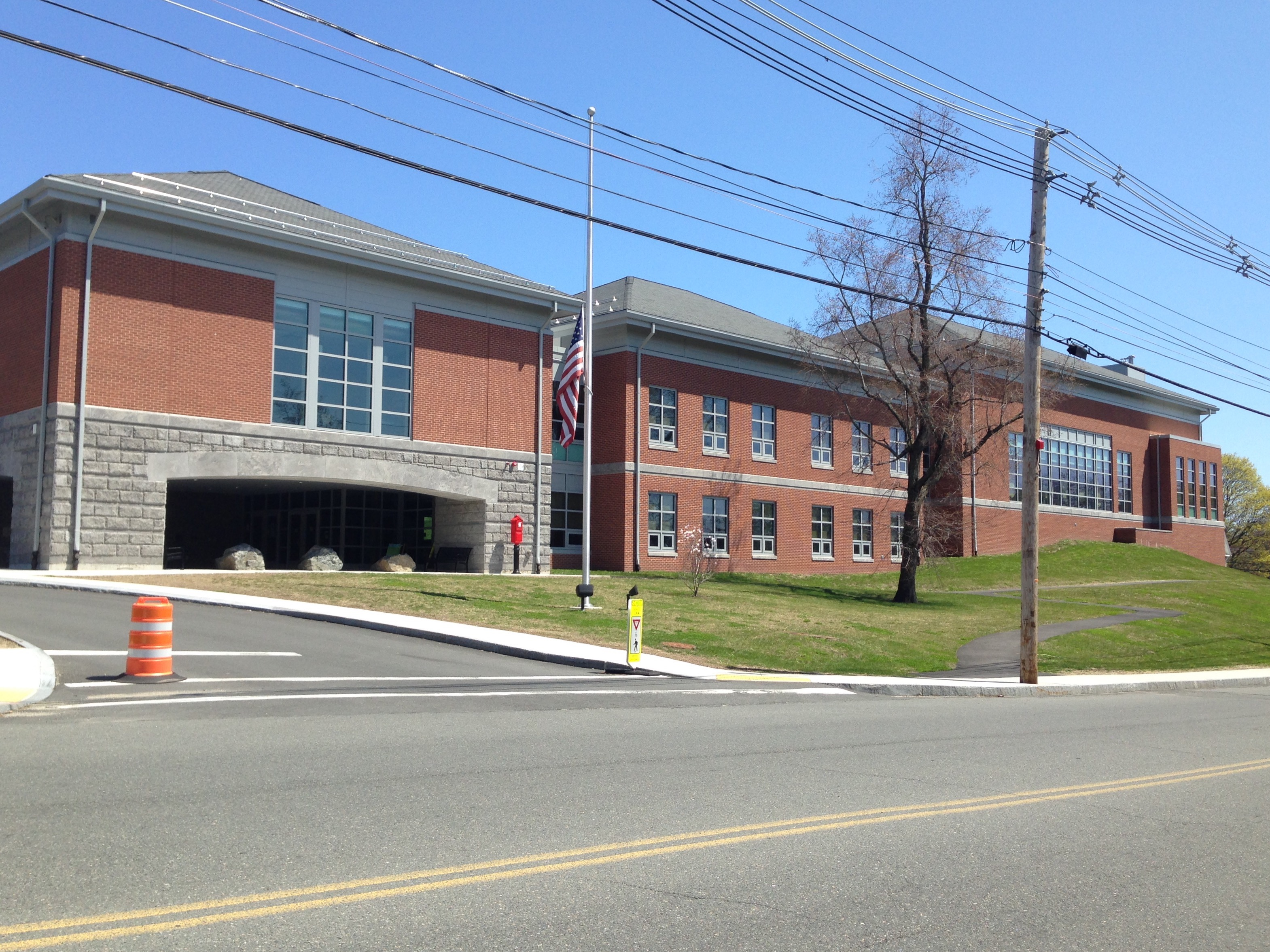 The Glover School in Marblehead, MA. This building replaced an older school that was demolished in 2012.